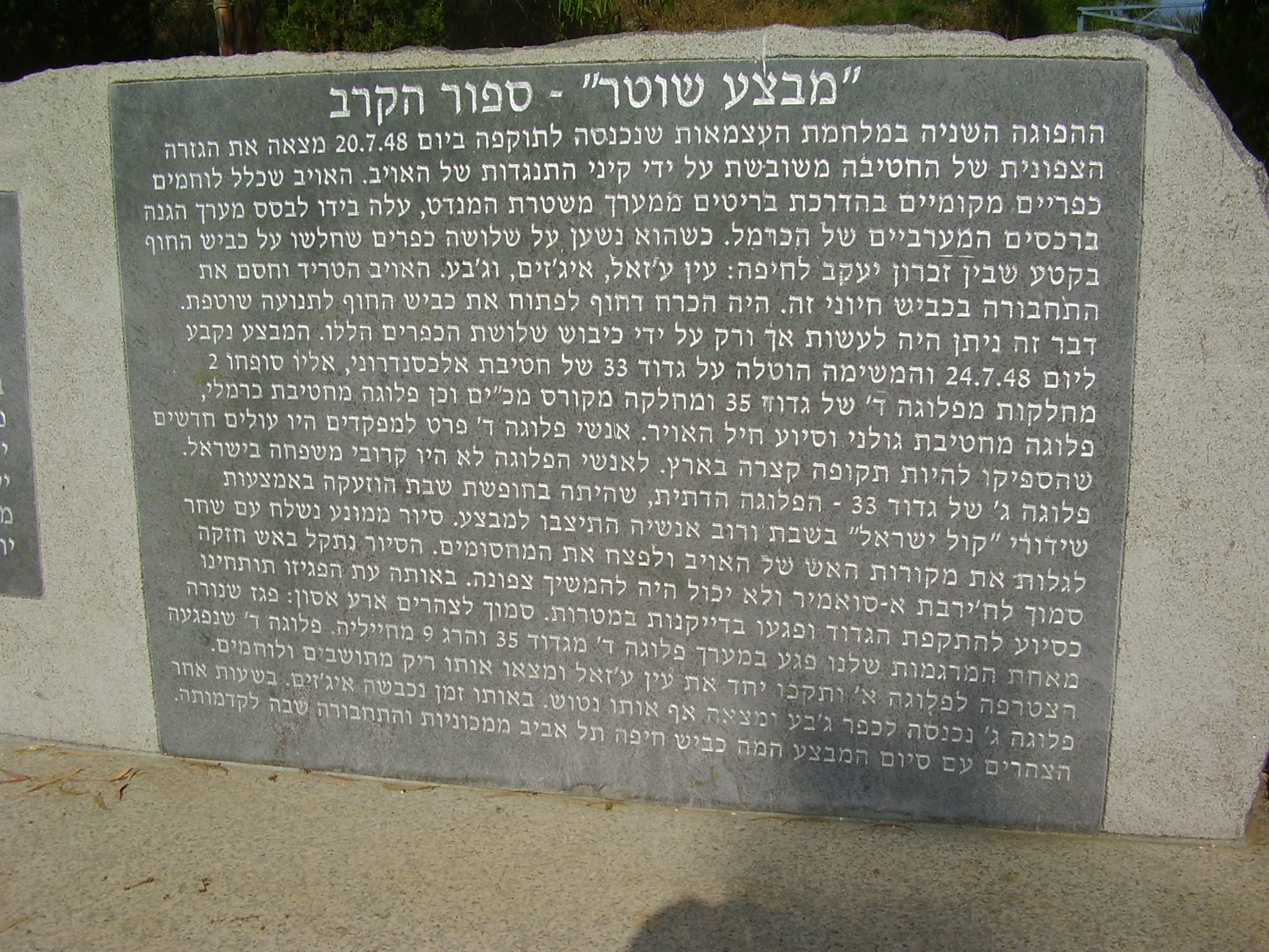 Alexandroni Brigade memorial in Ein Ayala